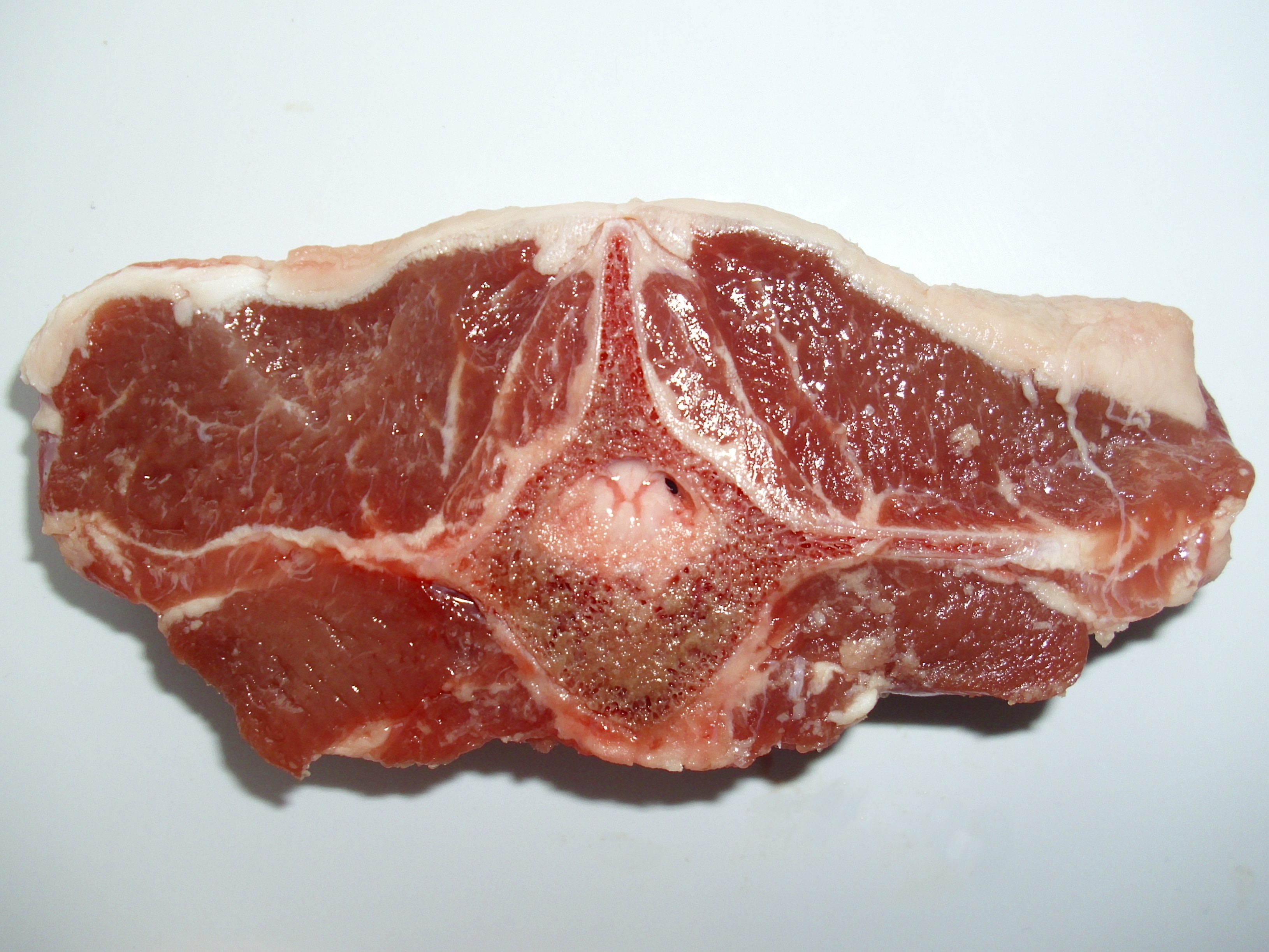 Lamb chop